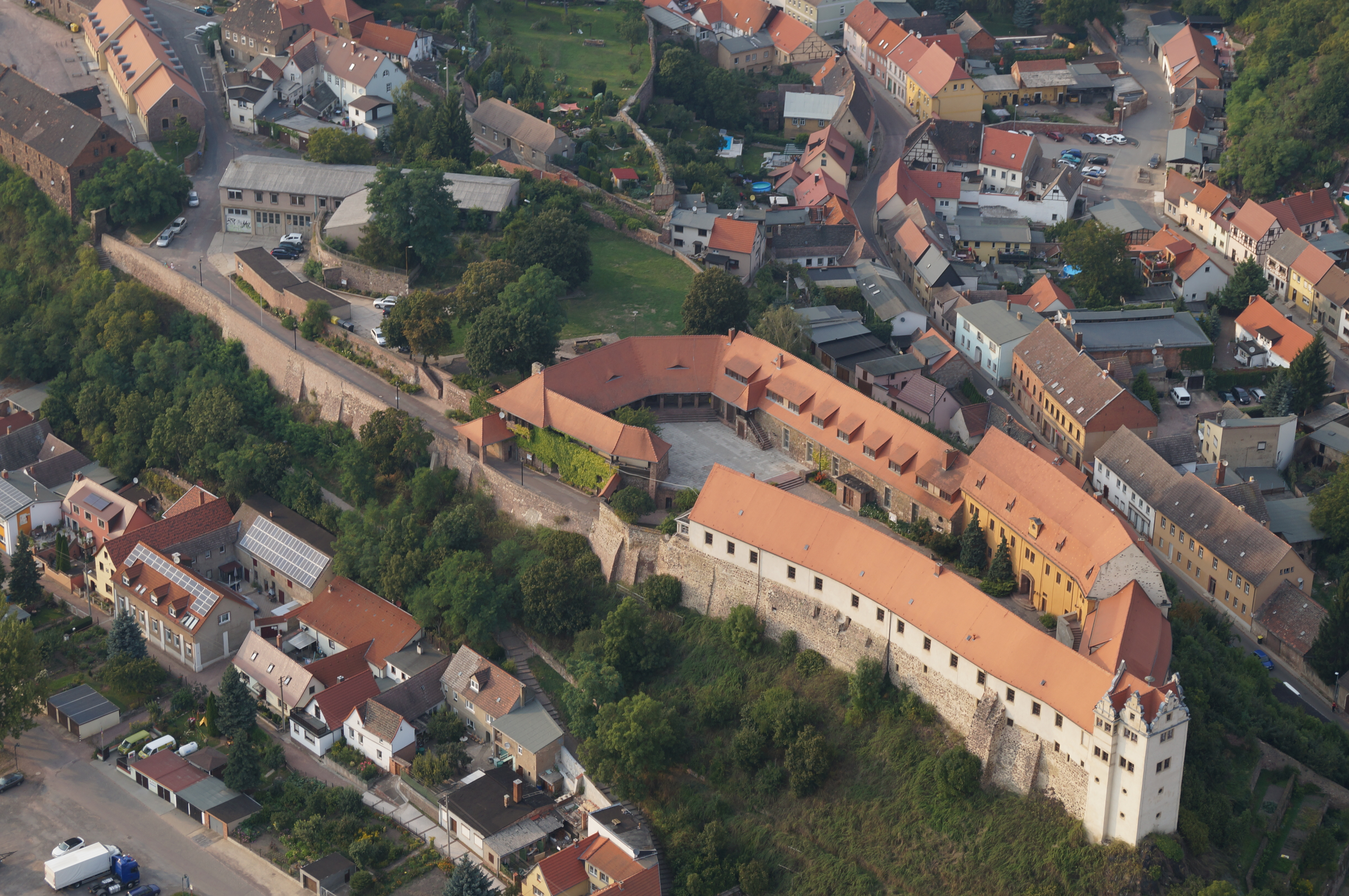 View from south